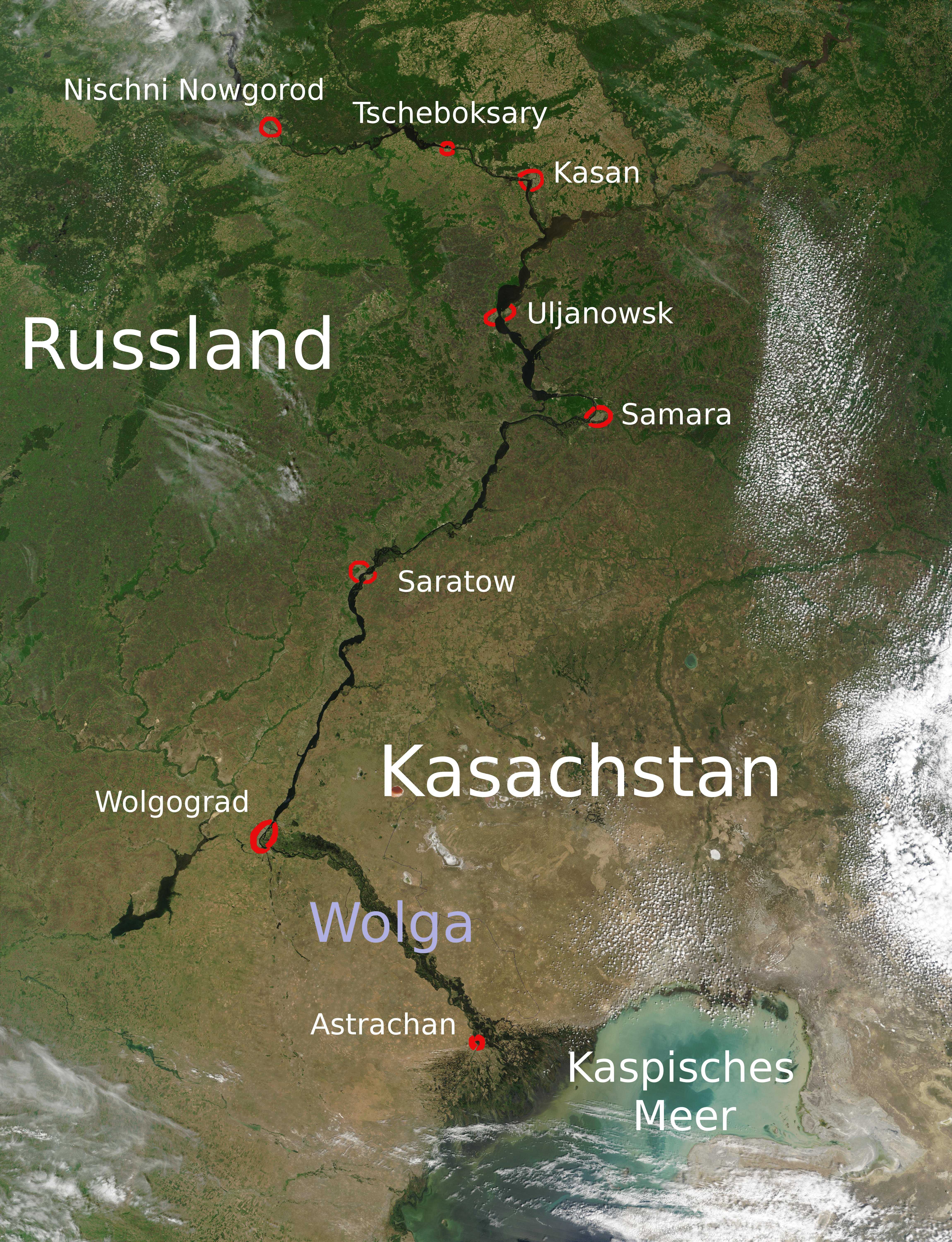 Russian river Volga from NASA satellite. Main cities along Volga are marked.